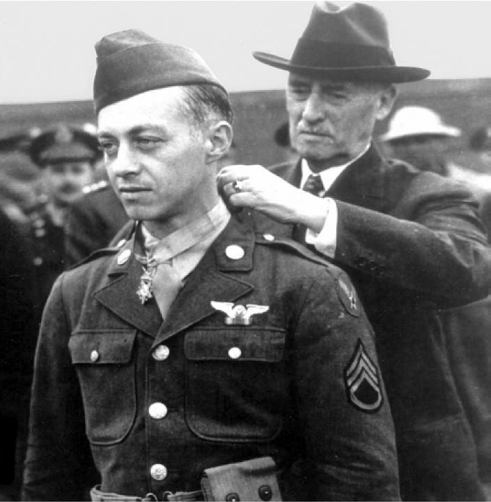 Sergeant Maynard H. Smith, a B-17 Flying Fortress gunner, receiving the first Medal of Honor to be awarded to an enlisted man from United States Secretary of War Henry L. Stimson.